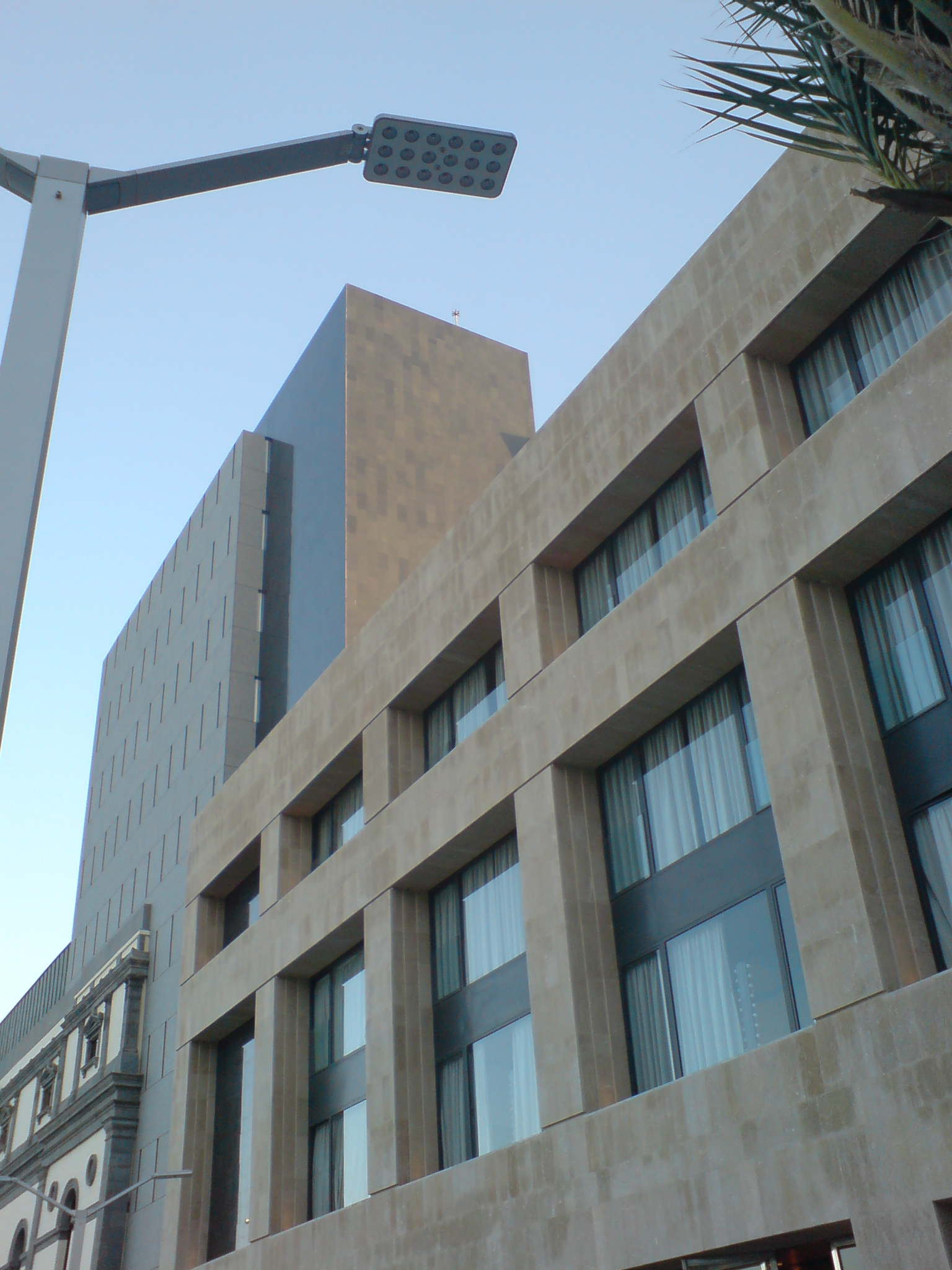 "Pérez Galdós" Theather, Las Palmas de Gran Canaria, Canary Islands. Spain.